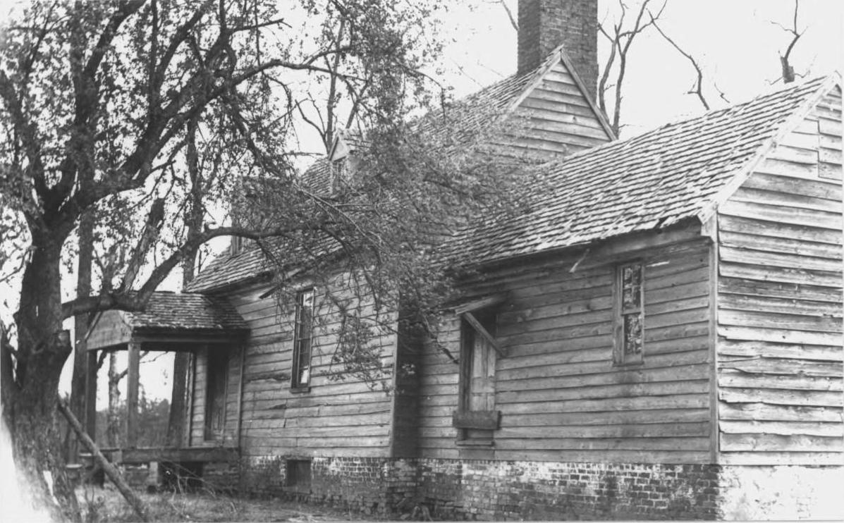 Hillsman House, at Sayler's Creek Battlefield, 1936 photo before house was restored. Cropped in 2008 to remove border and caption whose complete text was "Sayler's Creek Battlefield State Park, 1936 / Hillsman House before restoration by State park service / N. P. S. photograph".